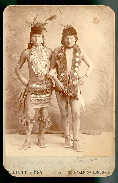 Black Elk and Elk of the Oglala Lakota as grass dancers touring with the Buffalo Bill Wild West Show, London, England, 1887 (source: The Sixth Grandfather: Black Elk's Teachings Given to John G. Neihardt, edited by Raymond J. DeMallie, page 259. The men are wearing "sheep and sleigh bells; otter fur waist and neck pieces; pheasant feather bustles at the waist; dentalium shell necklaces; and bone hairpipes with colored glass beads...Photograph collected on Pine Ridge Reservation in 1891 by James Mooney. Courtesy National Anthropological Archives, Smithsonian Institution")